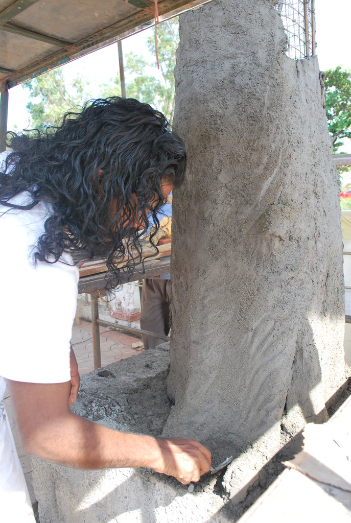 Sculptor V.J. Robert at Lalita kala academys Sculptor camp, Kayamkulam Dec 2014